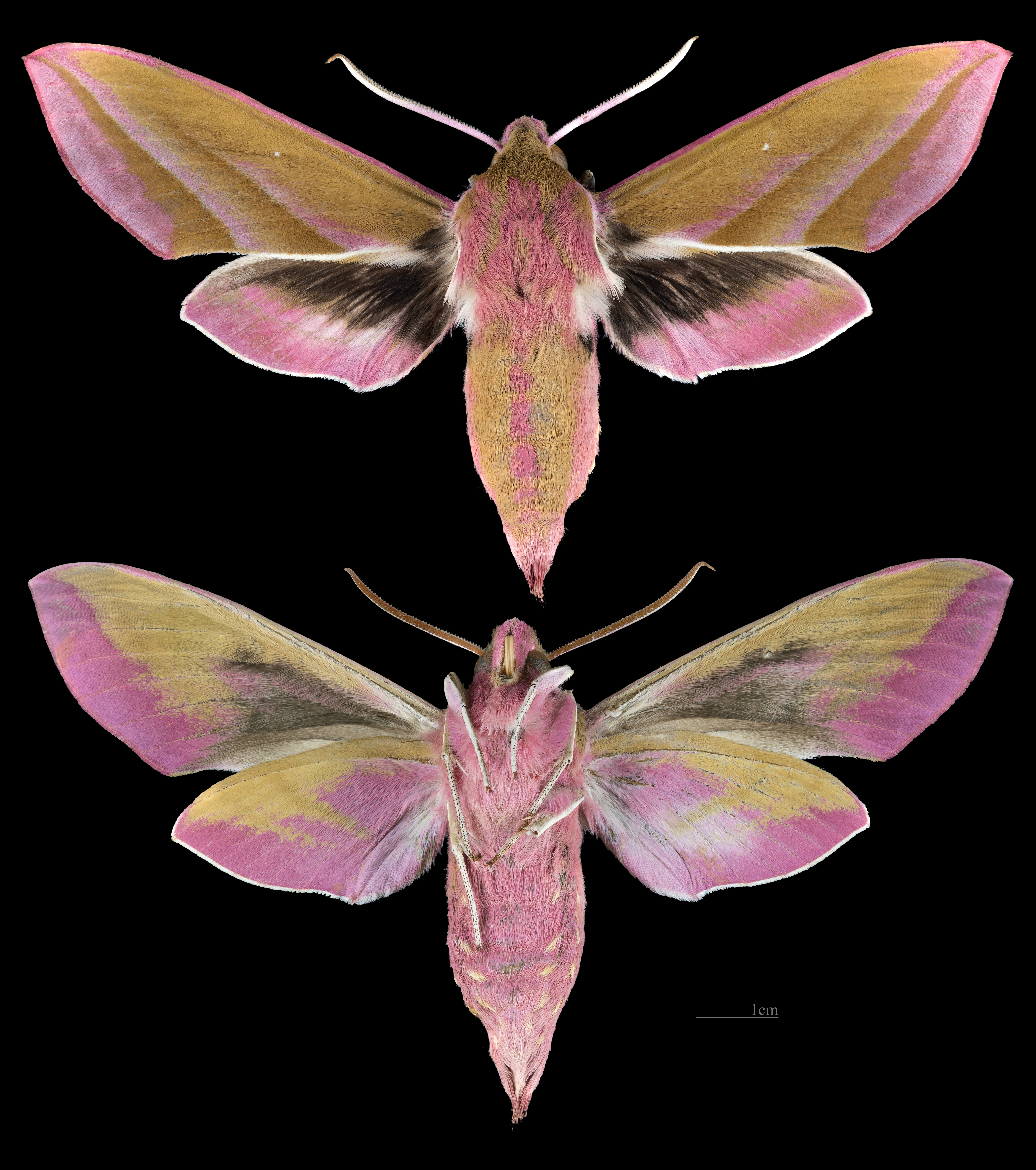 Elephant Hawk-moth - Two views of same specimen Collection of the Mathematician Laurent Schwartz